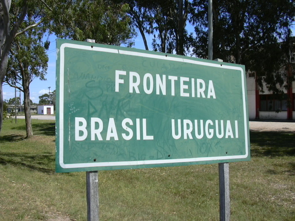 The border between Brazil (Chuí) and Uruguay (Chuy).